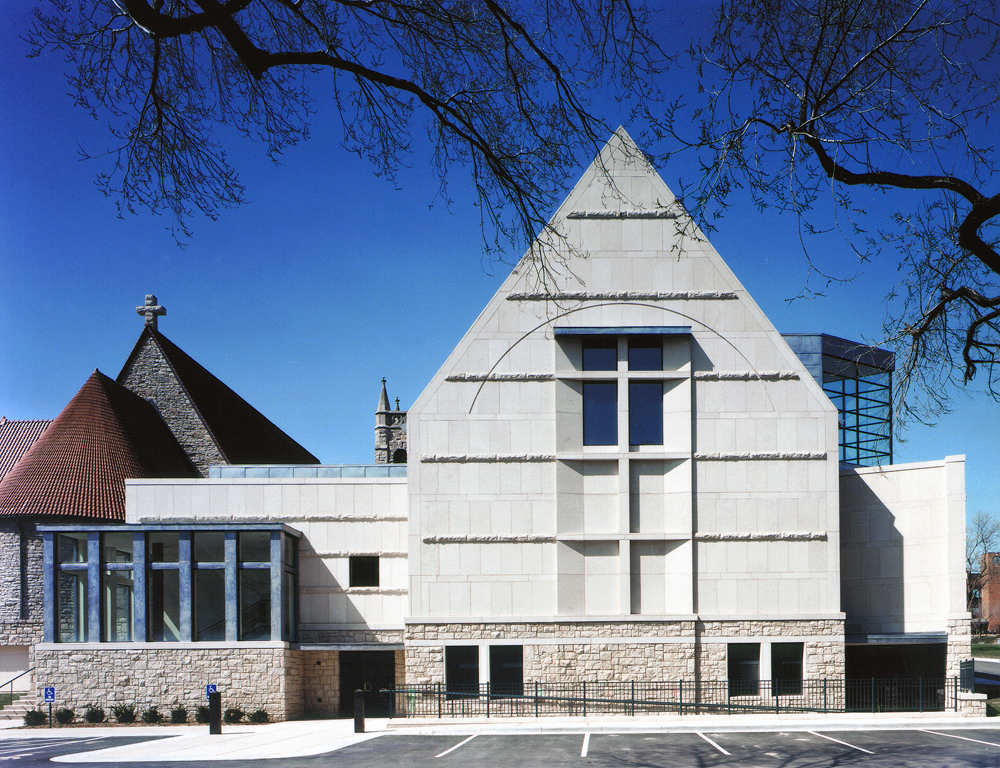 Building